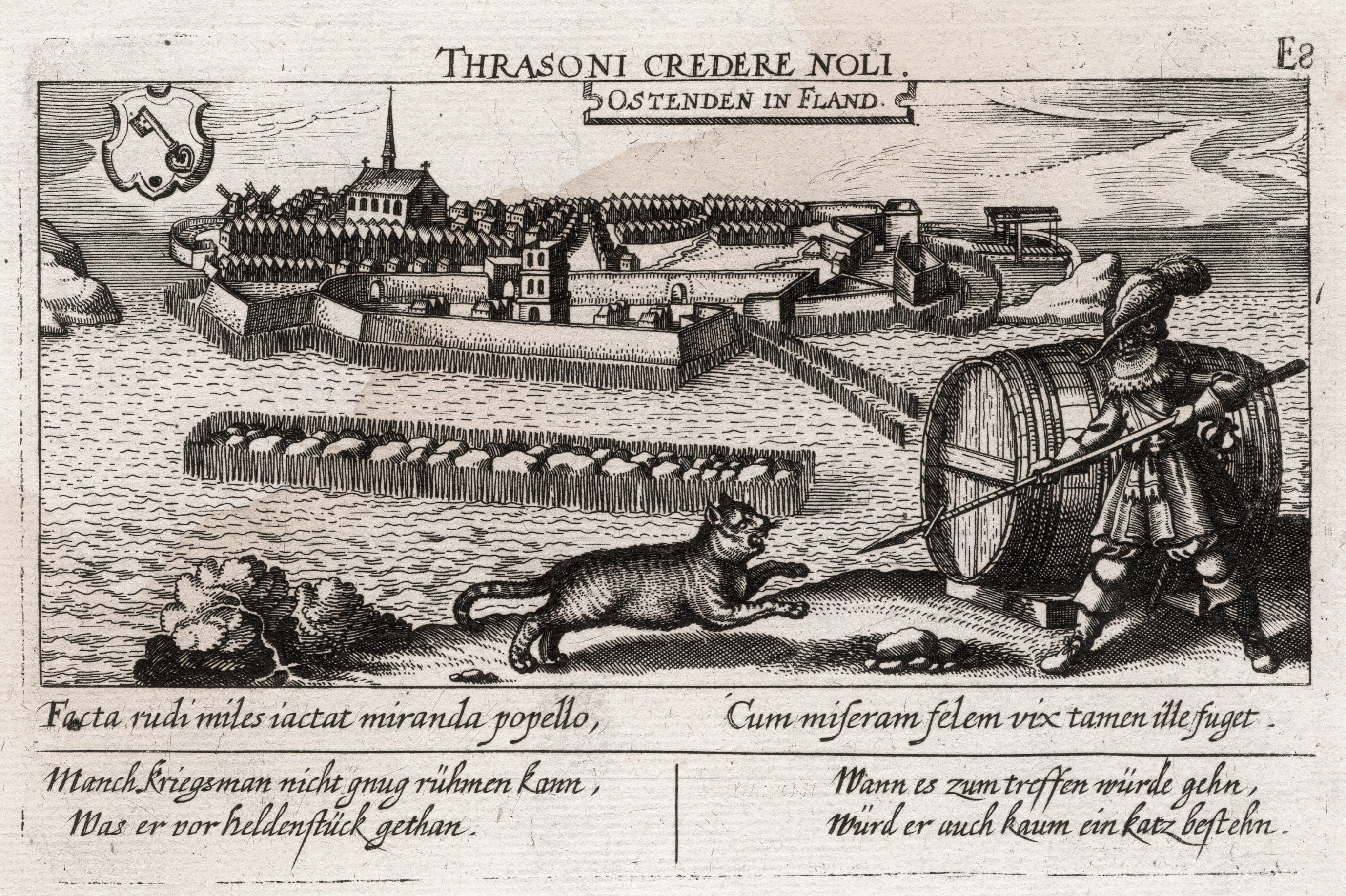 View of Ostend (Belgium). Engraving with emblematic verses in Latin and German, from Daniel Meisner, Thesaurus Philopoliticus, Frankfurt am Main, 1623-1632.